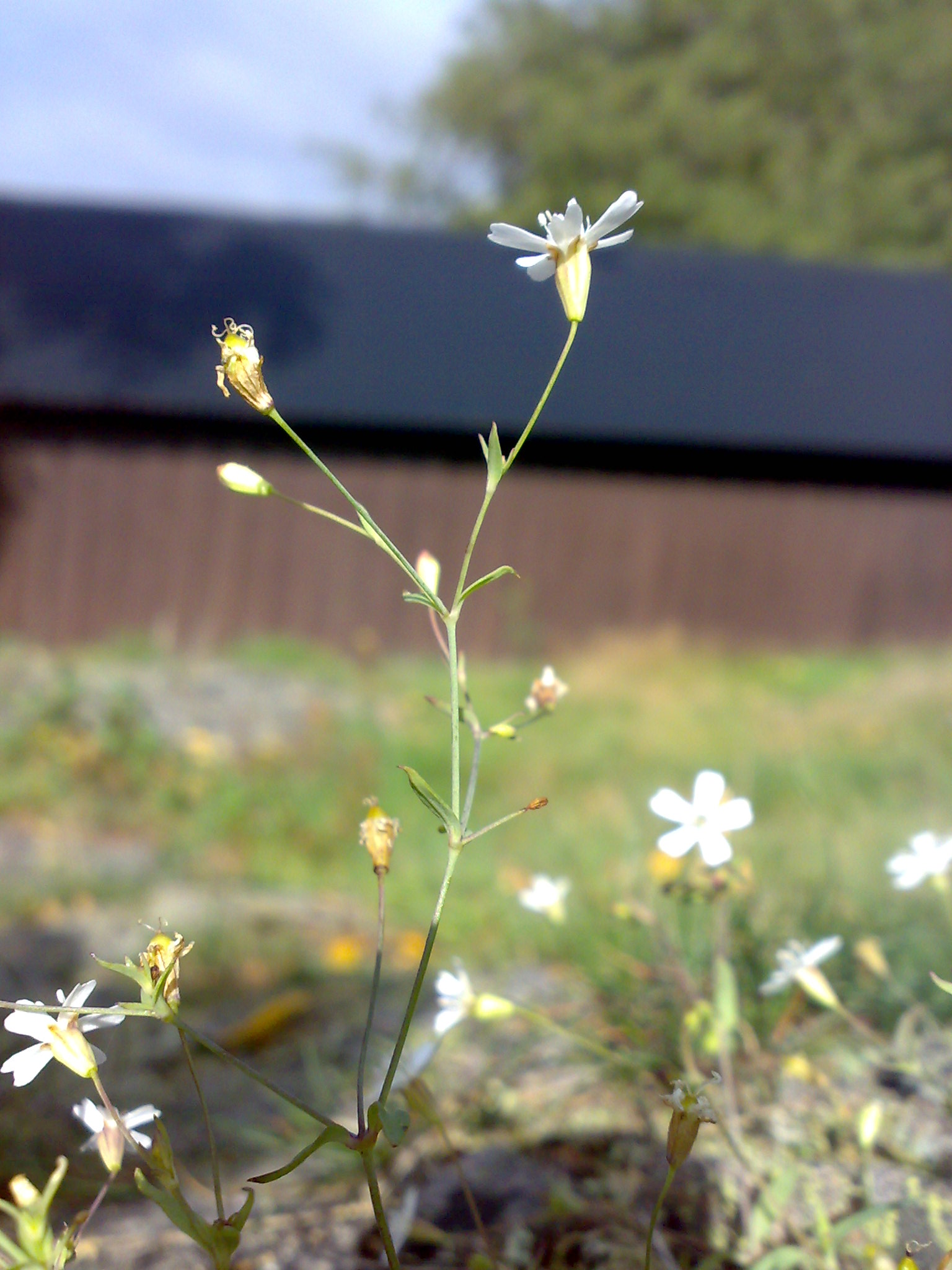 Atocion rupestris in Hurum, Norway